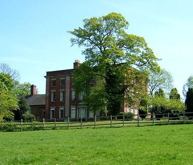 Stately Walton Hall is an 18th century country house situated in the village of Walton on Trent, Derbyshire. It is a Grade II* listed building but is in slow decay and is officially registered on the Buildings At Risk Register. - Note picture is clipped